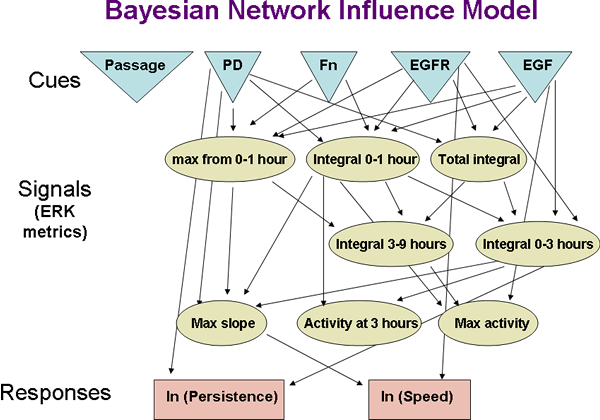 Bayesian network approach to cell signaling pathway modeling